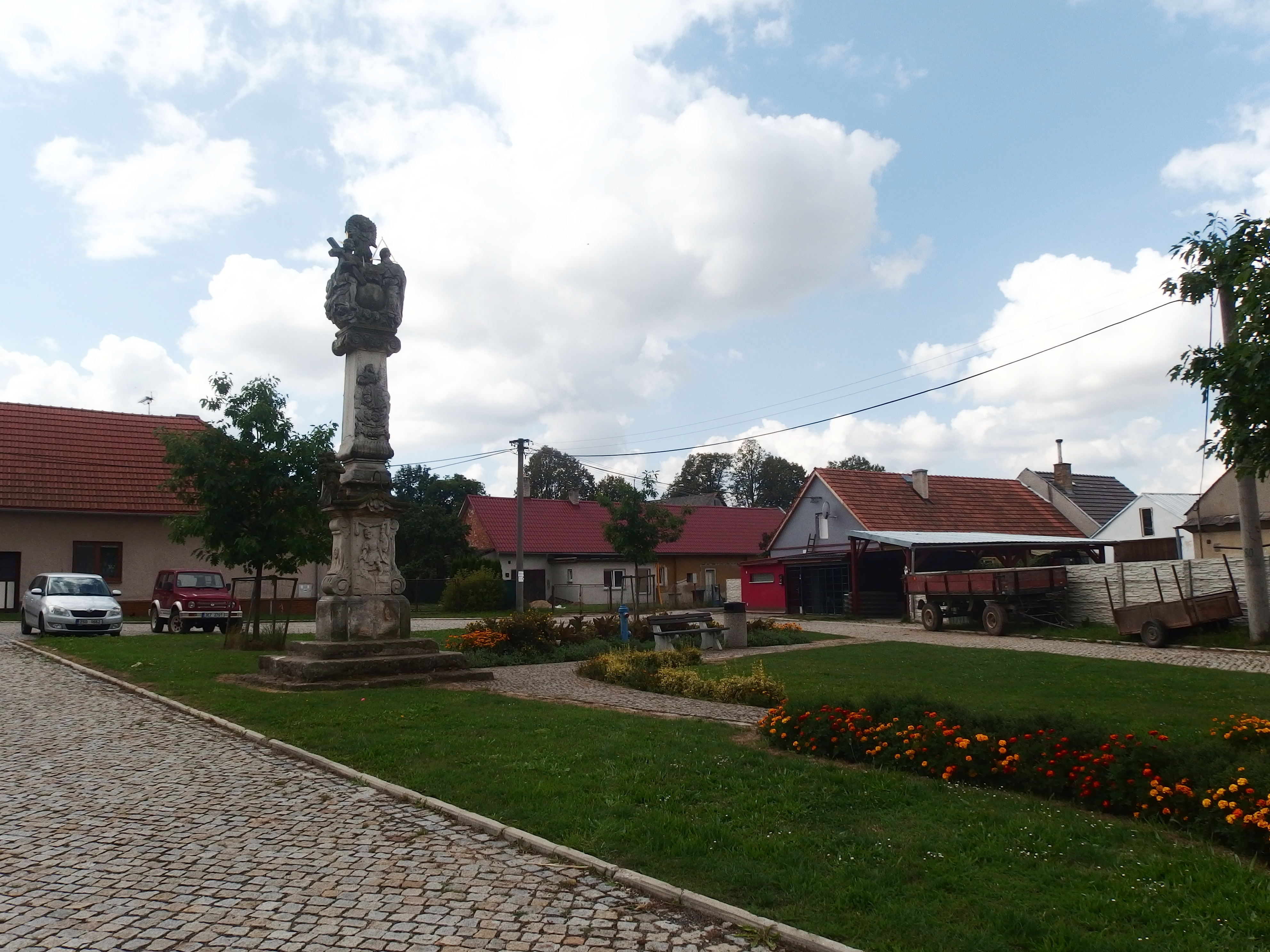 Třebařov, Svitavy District, Czech Republic.